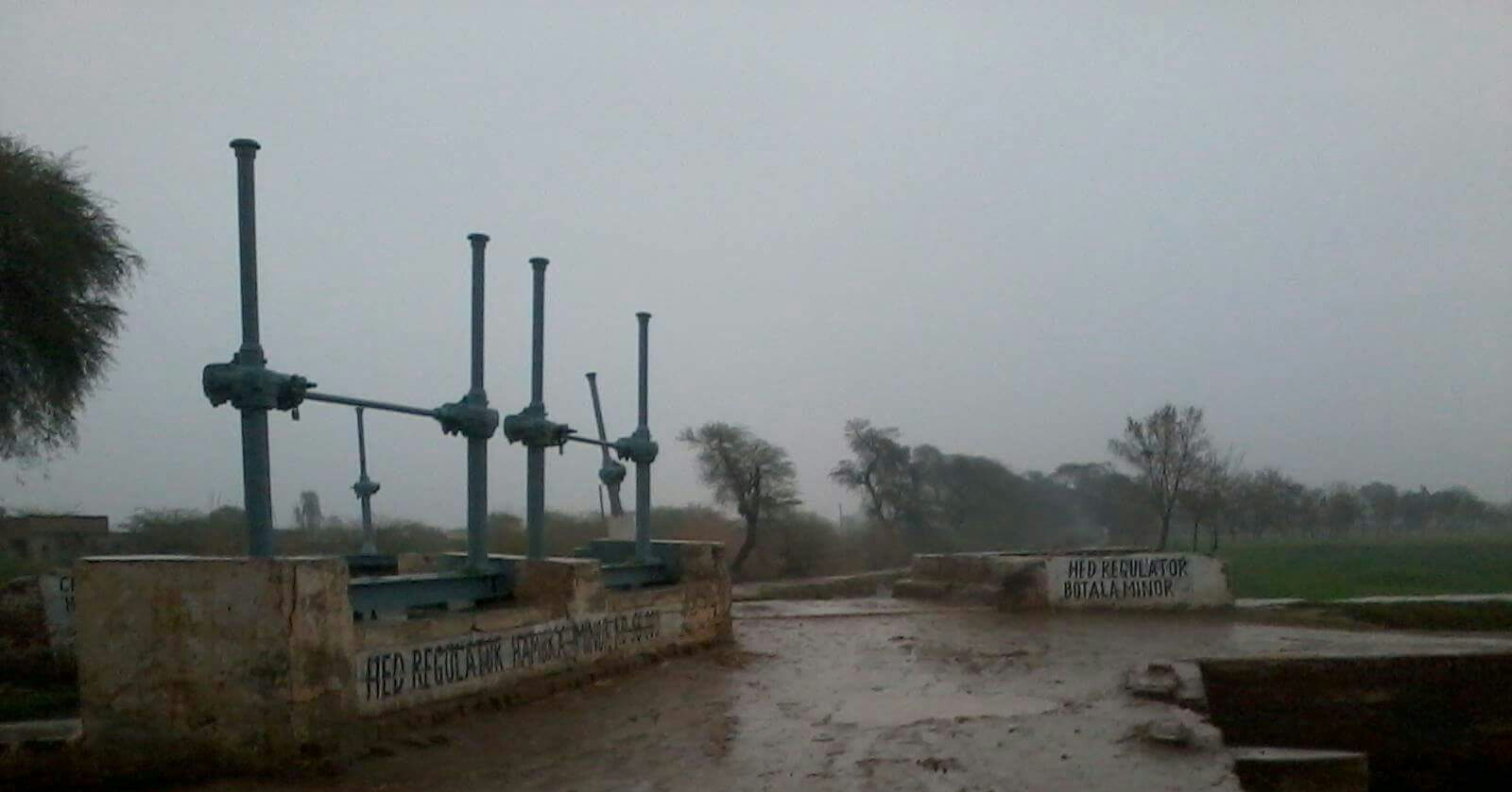 I also Uploaded this Photo on Botala Facebook Page & on website